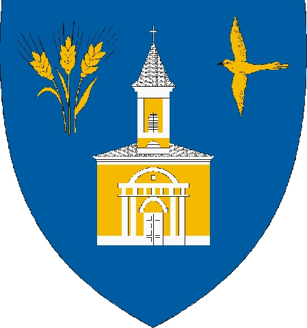 Coat of arms of Tápióság, Hungary